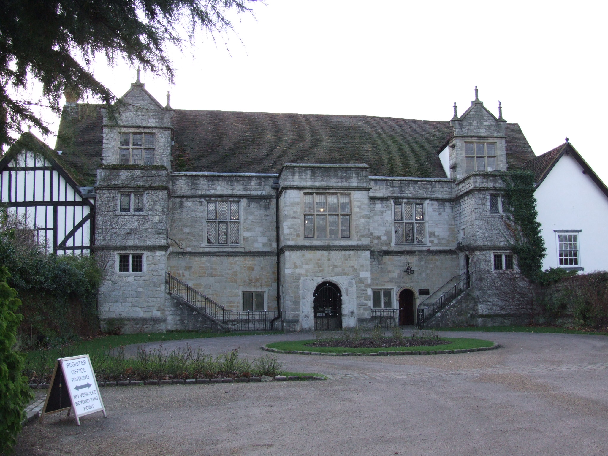 Maidstone: The Archbishops Palace. - OpenStreetMap(Info)